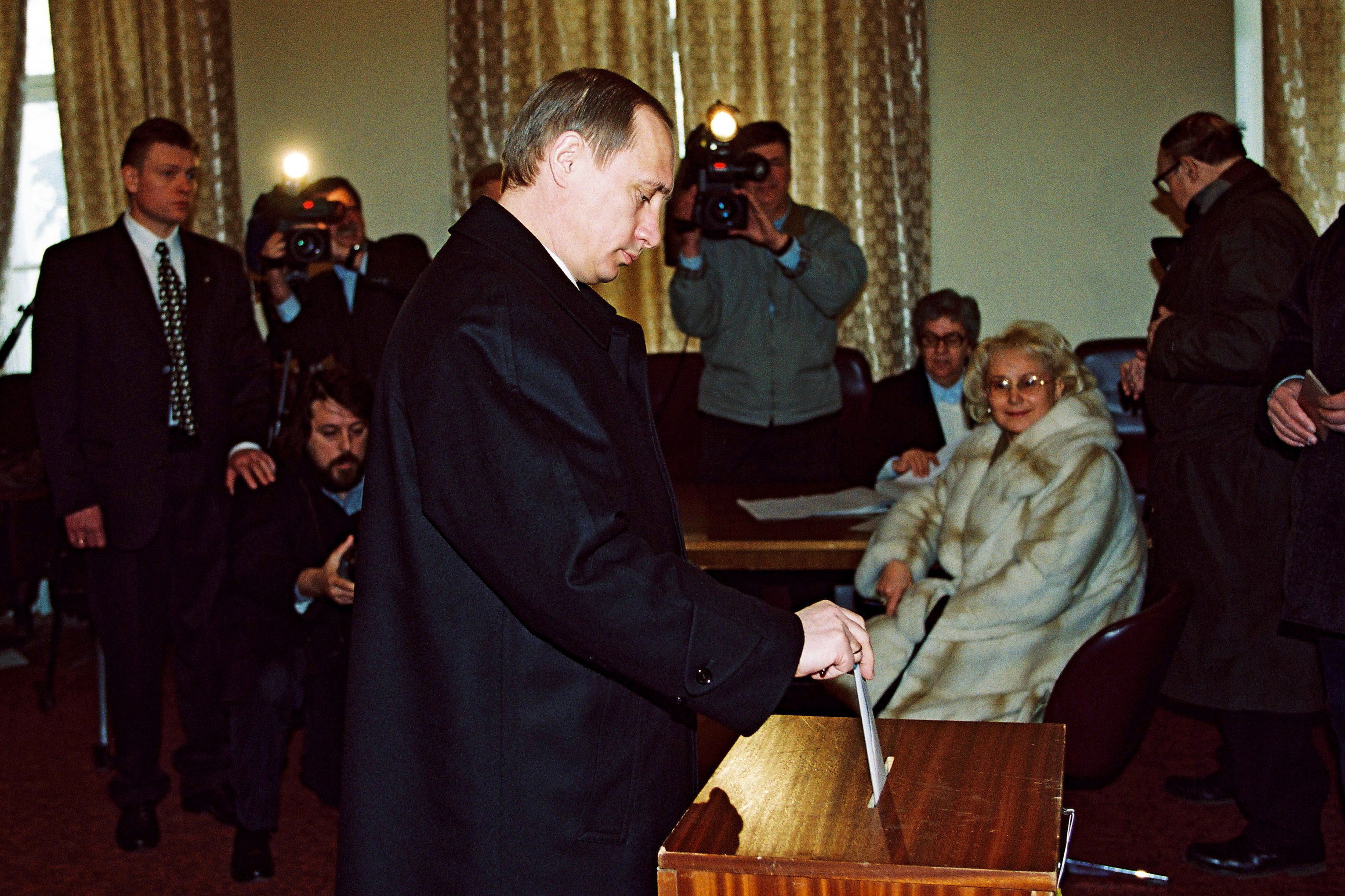 MOSCOW. Vladimir Putin at polling station 2026, Gagarinsky District.